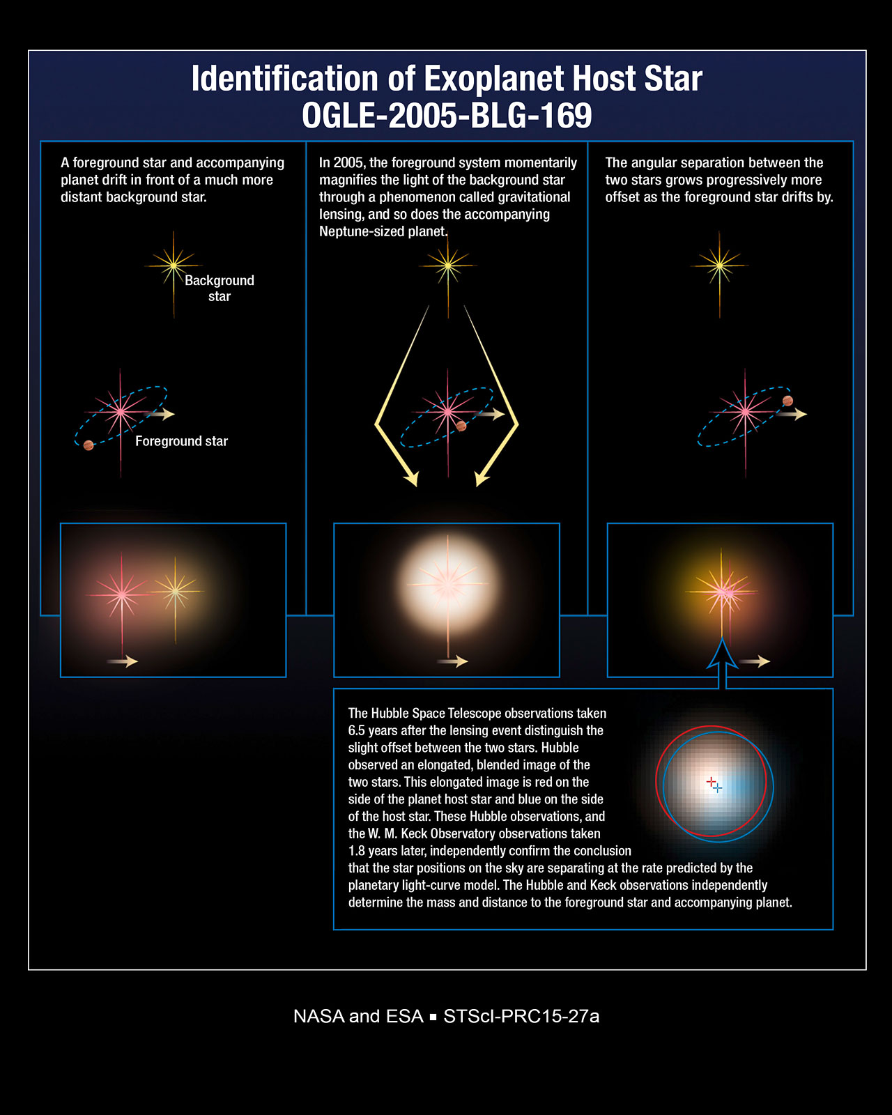 This graphic illustrates how a star can magnify and brighten the light of a background star when it passes in front of the distant star. If the foreground star has planets, then the planets may also magnify the light of the background star, but for a much shorter period of time than their host star. Astronomers use this method, called gravitational microlensing, to identify planets.